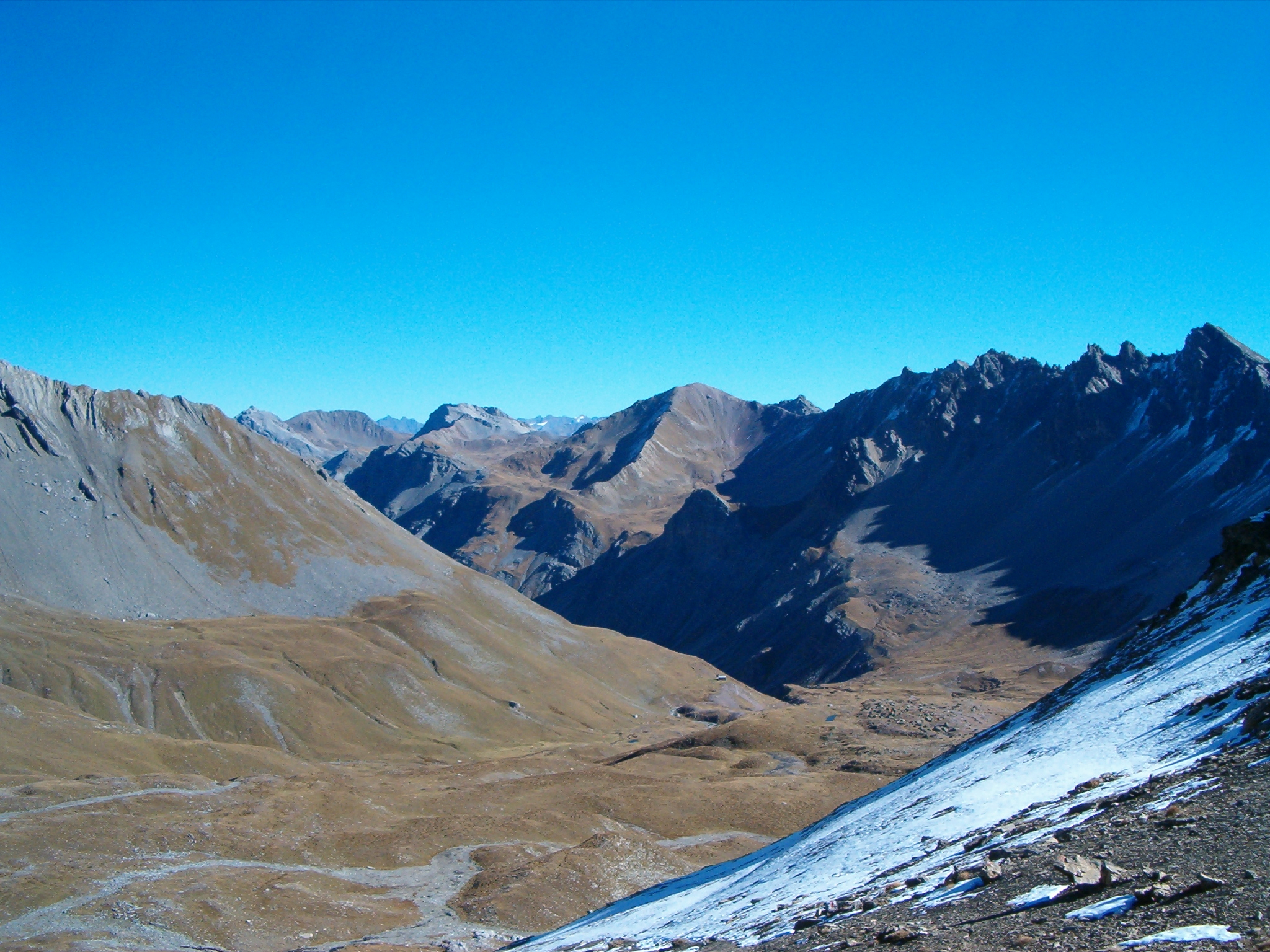 Alp Ramoz at Arosa, Switzerland